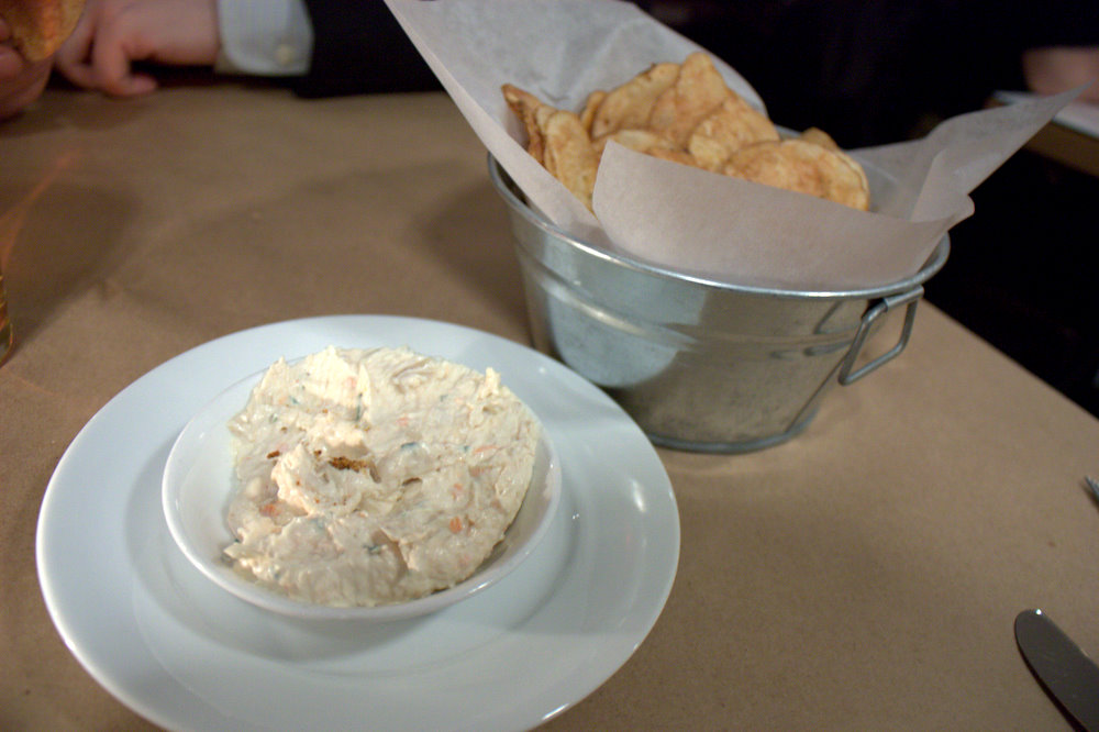 Crab dip and old bay chips